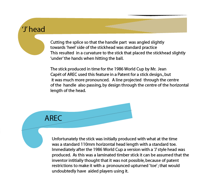 The angle to the 'heel' side of a hocky stick due to the angle of insertion of the handle part to the head part in timber constructions. The use by Mr.Jean Capet of this feature to patent a design where the centre line of the handle could be projected through the centre of the head of the stick.